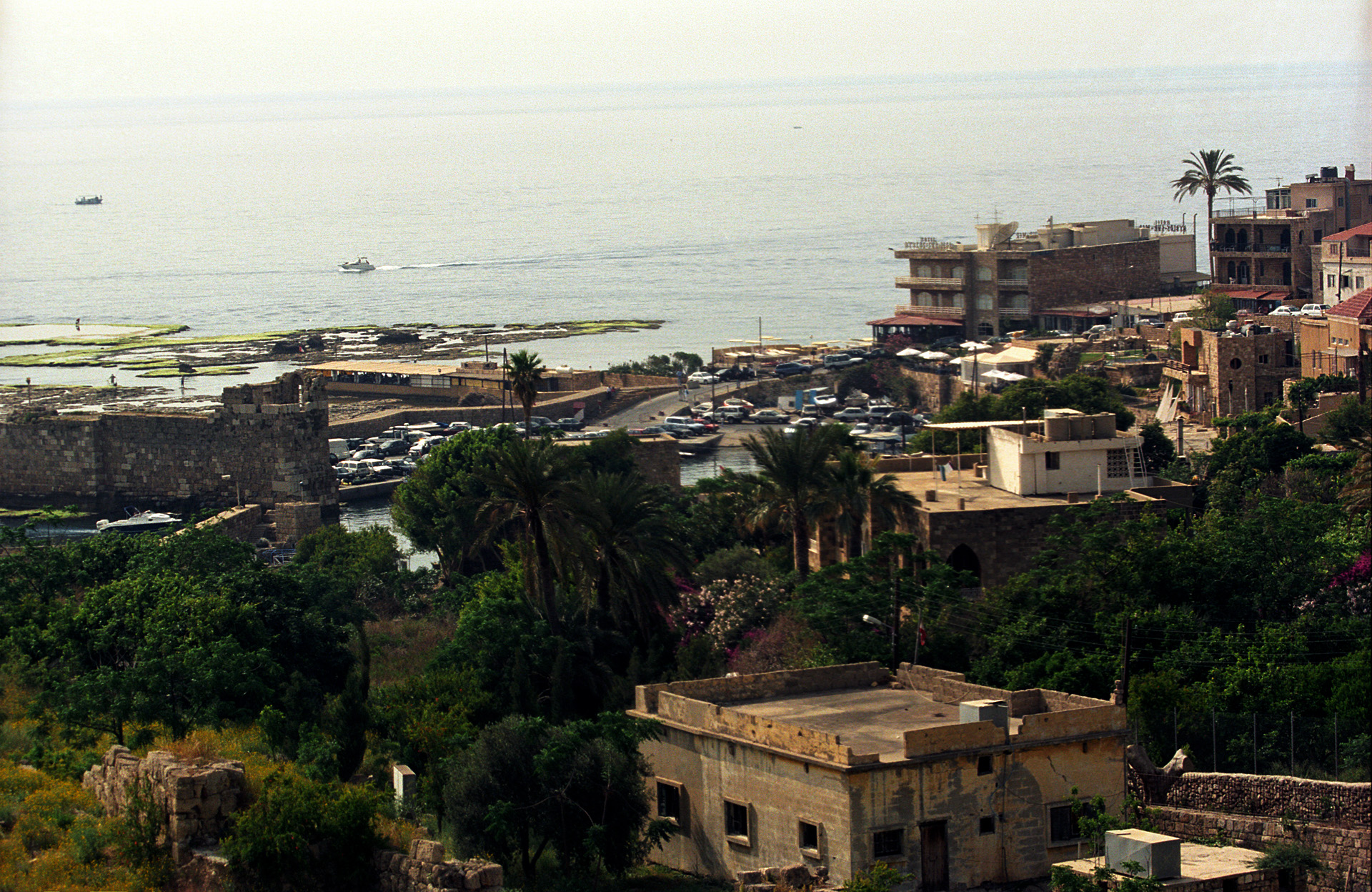 Byblos, the harbour